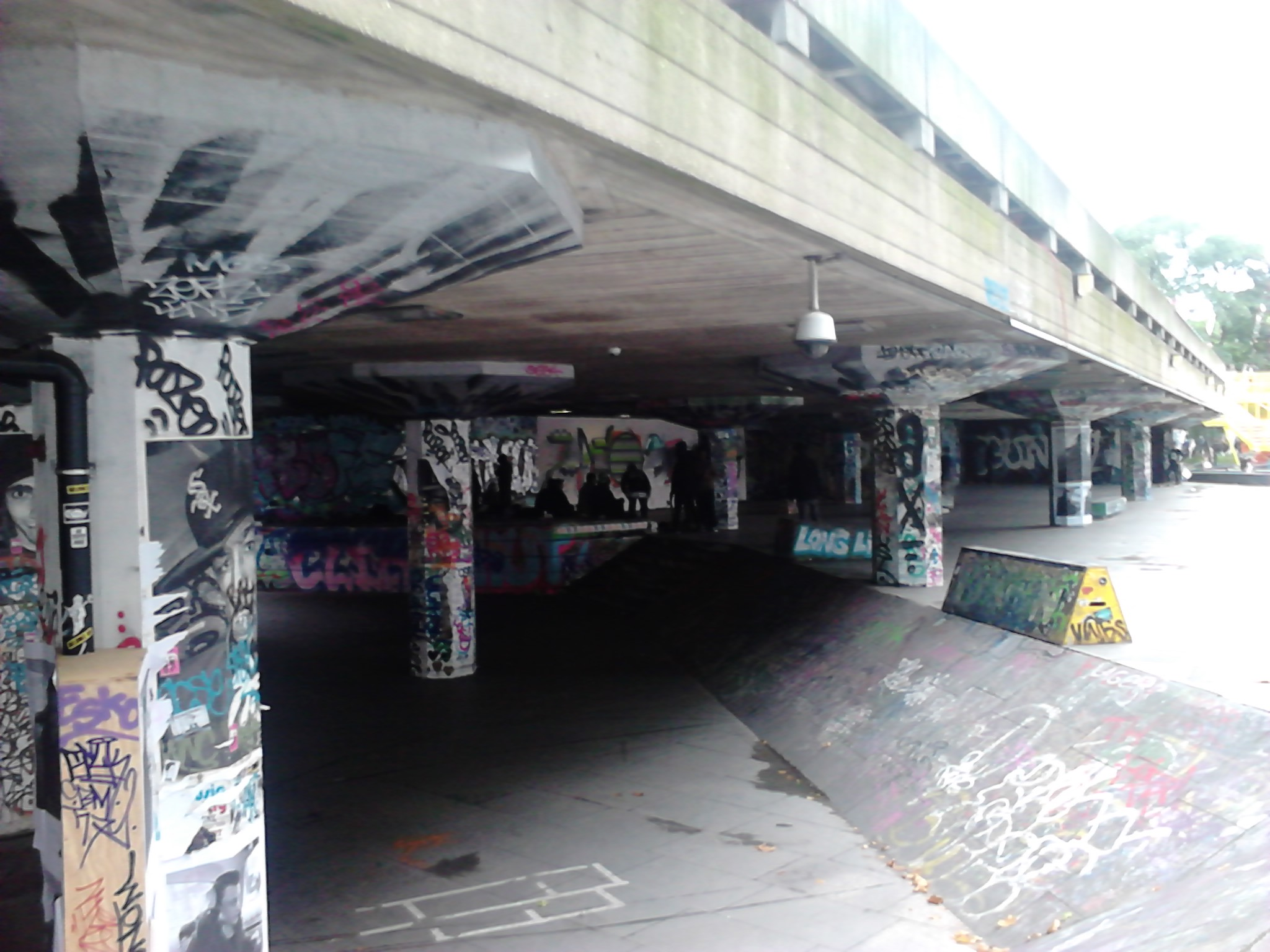 Lambeth, London, UK